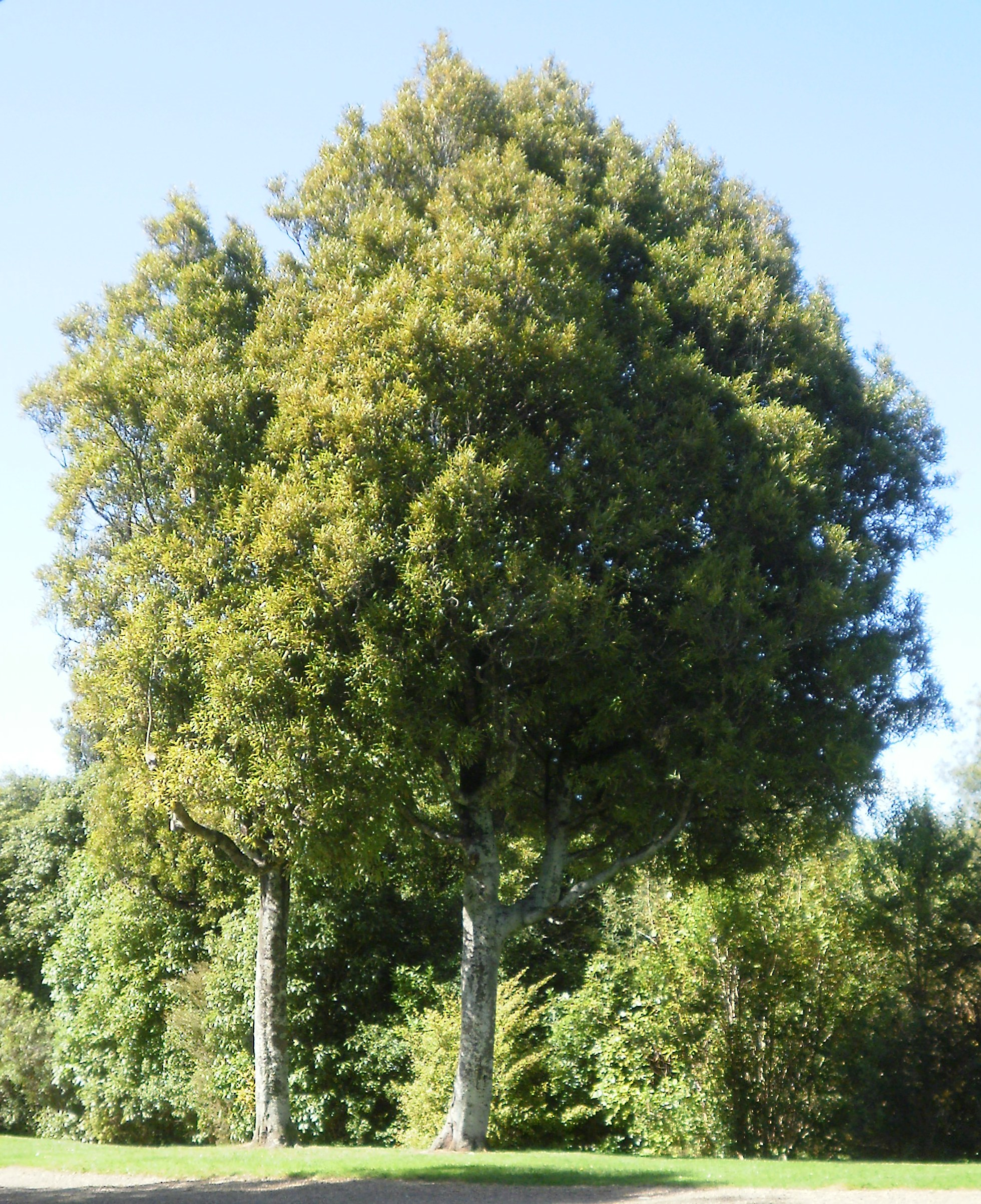 Beilschmiedia tawa, tawa, tree in California Park, Upper Hutt, New Zealand.